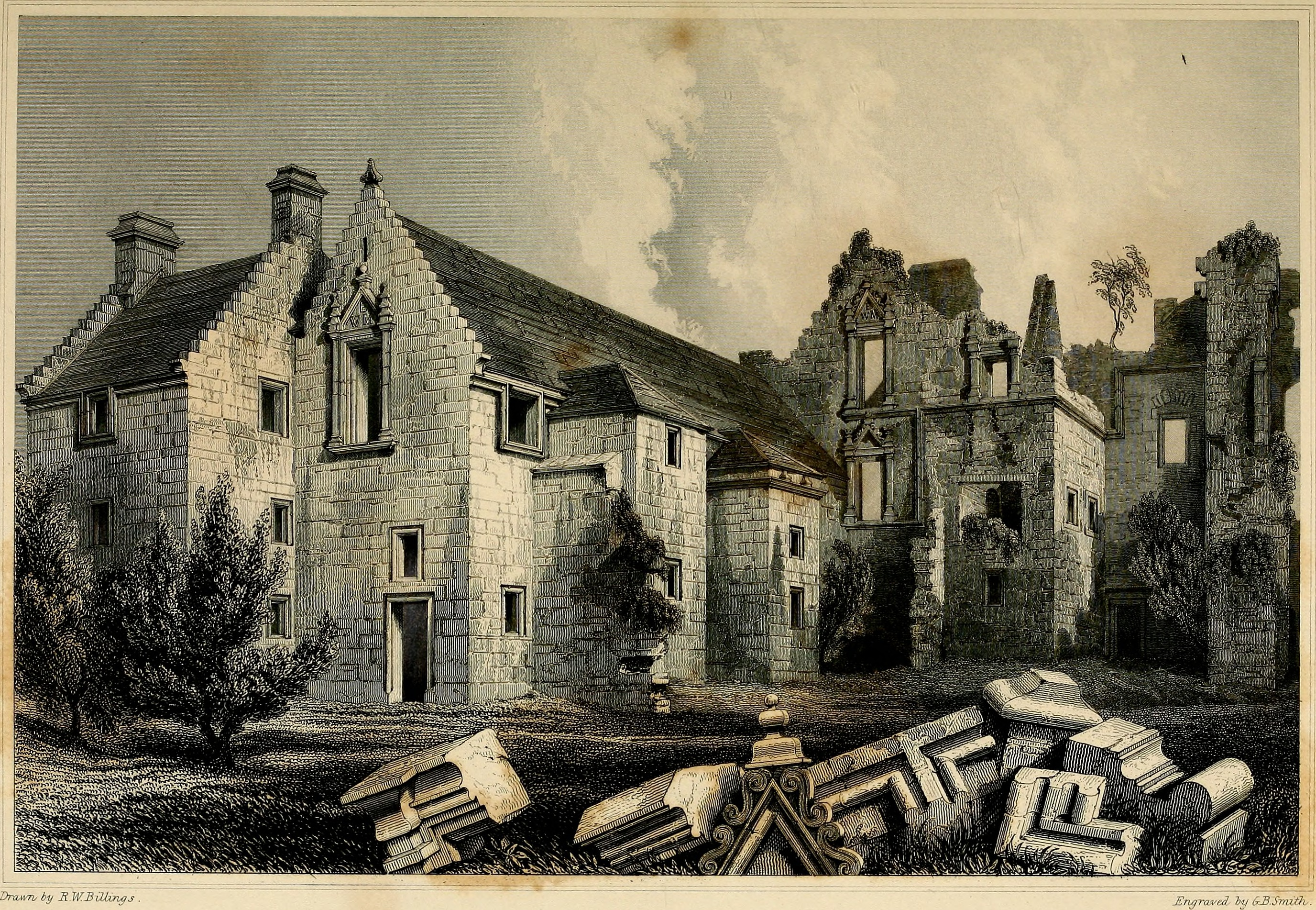 Title: The baronial and ecclesiastical antiquities of Scotland Year: 1845 (1840s) Authors: Billings, Robert William, 1813-1874 Subjects: Architecture Church architecture Publisher: Edinburgh, London, Pub. for the author by W. Blackwood and sons Text Appearing Before Image: l design. J Auchans is about four miles fromTroon, and stands in the parish of Dundonald. It has upon its walls the date of erection, 1644;but its materials were in use long before that period, having been removed from the old castle ofDundonald, whose shapeless rains, in the immediate vicinity, still attest a once extensive andinteresting fortress,—the more interesting as belonging to a class of which Coxton, near Elgin,is now the somewhat diminutive type; for the fire-proof castle we now speak of as in ruinsmust have been six times the extent of the more northerly and complete fortification. R. W. B. * The city gateway of York, and the castles of Hytton and Luiuley, in the county of Durham, are well known examples.+ A similar arrangement exists in the inner courtyard of Glasgow University. J Even when the old architects made actual mistakes they were not ashamed, but left them distinctly visible. Theyknew the power of general effect too well to care much about minor faults. « y # Text Appearing After Image: &